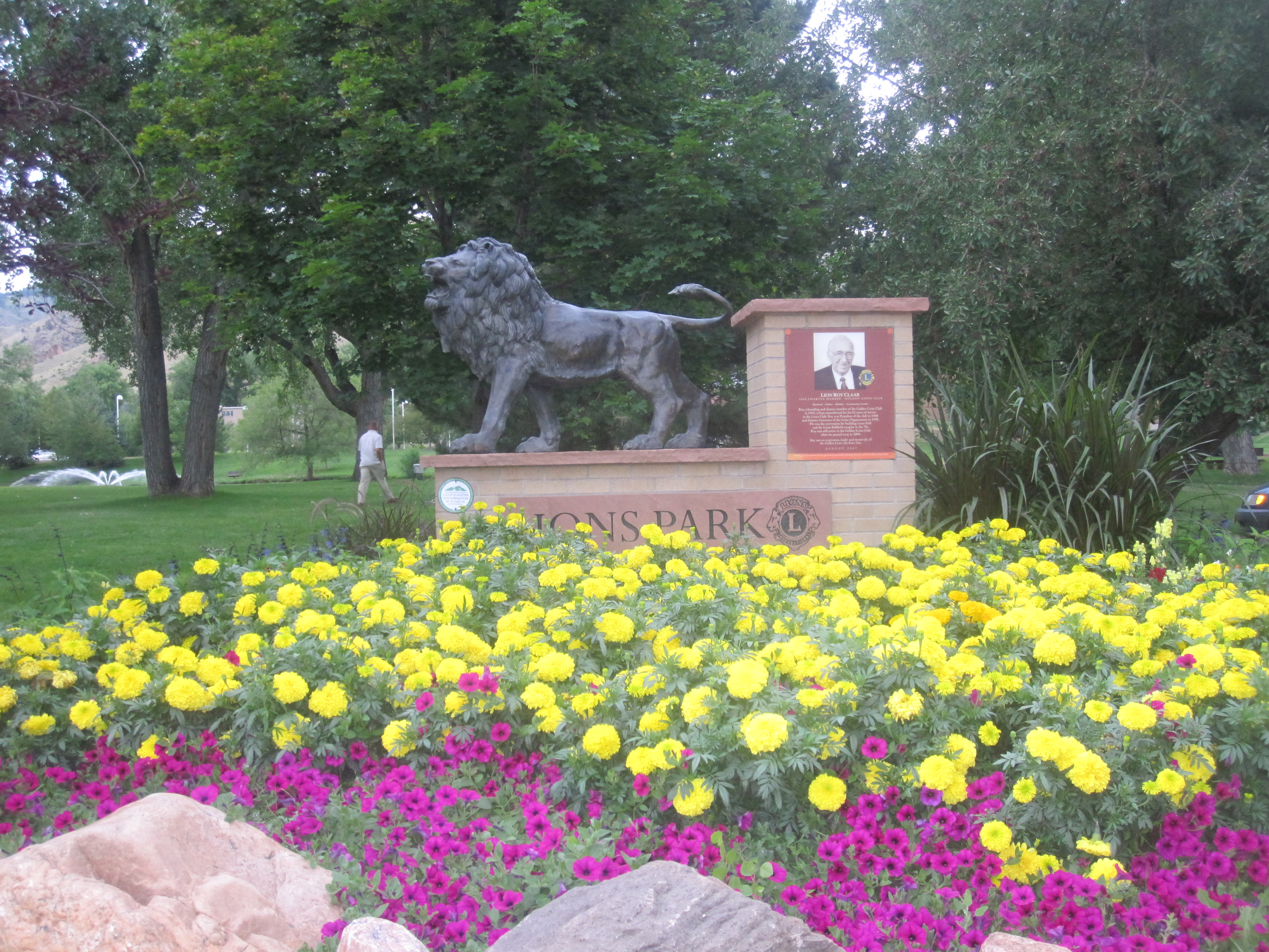 I took photo with Canon camera in Golden, CO.